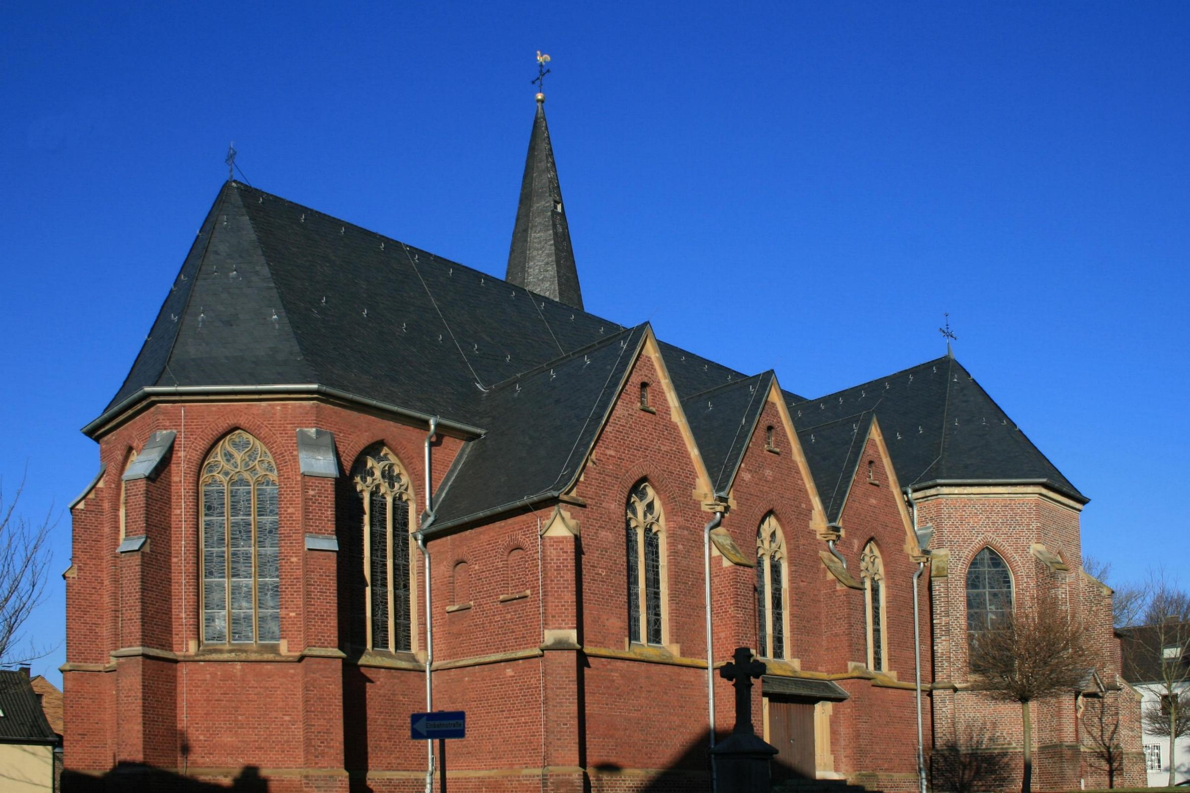 Cultural heritage monument No. 14 in Jülich